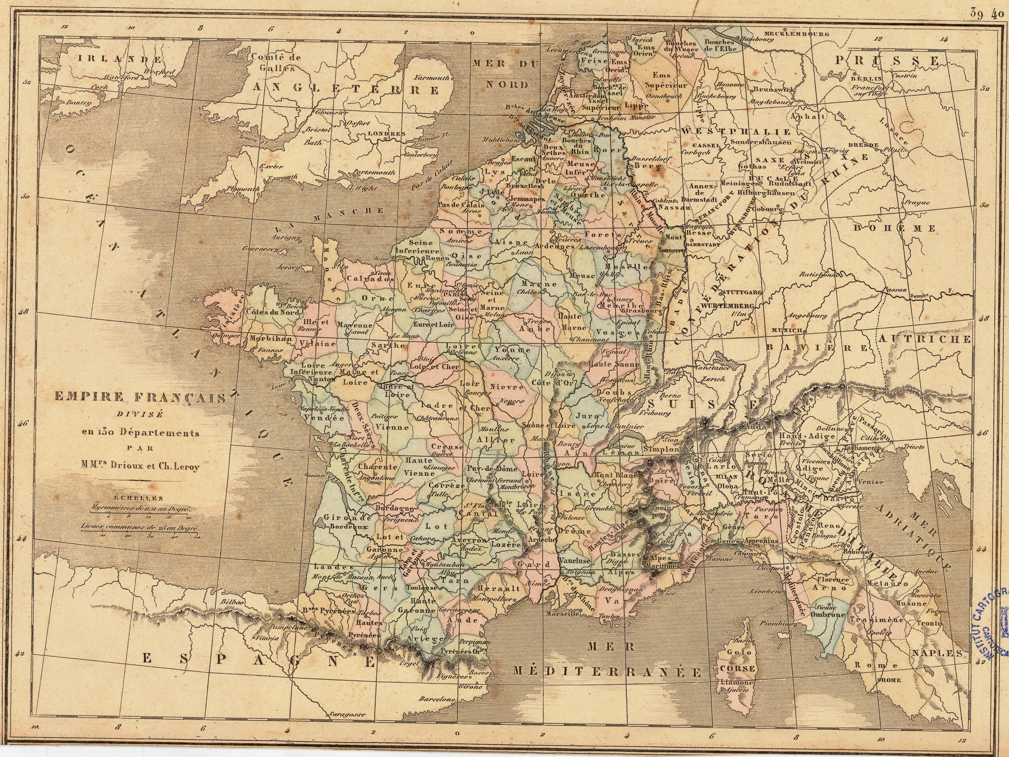 French departements under the first empire (in 1811 precisely). Note: The Liamone department was merged with the Golo department on April 19th 1811 ; the Lippe department was created on April 26th 1811 ; therefore Liamone and Lippe departments never existed officially both at the same time although they are both drawn on the map.